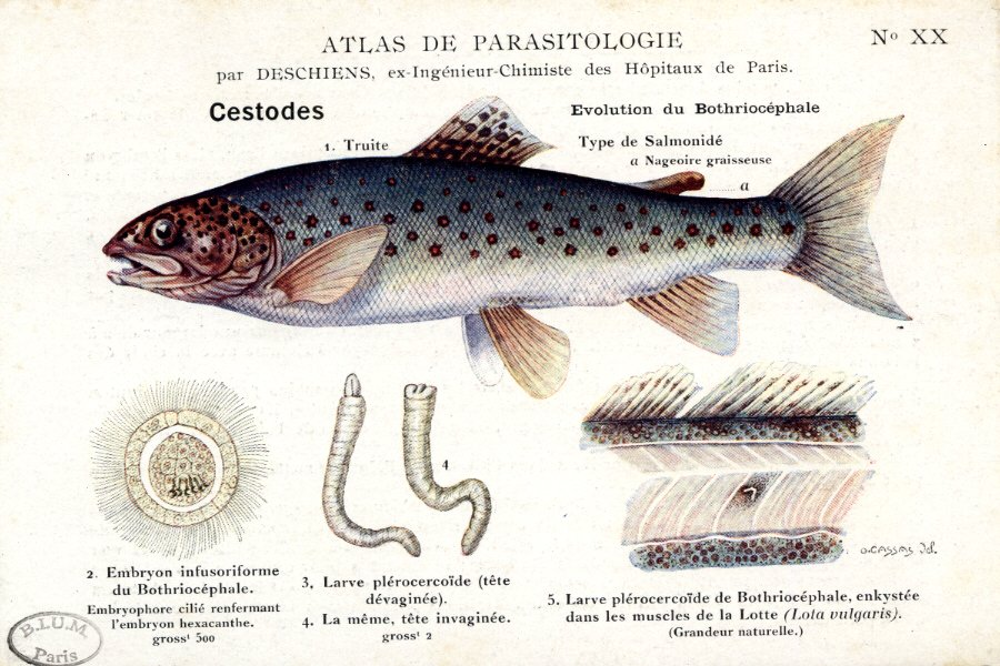 Life cycle of the Bothriocephalus tapeworm (now known as Diphyllobothrium). 1. Definitive host, a trout. 2. Coracidium (free-swimming ciliated larva). 3, 4. Plerocercoid larva. 5. Plerocercoid in cyst in muscle of intermediate host, a freshwater fish, the burbot (Lota lota).